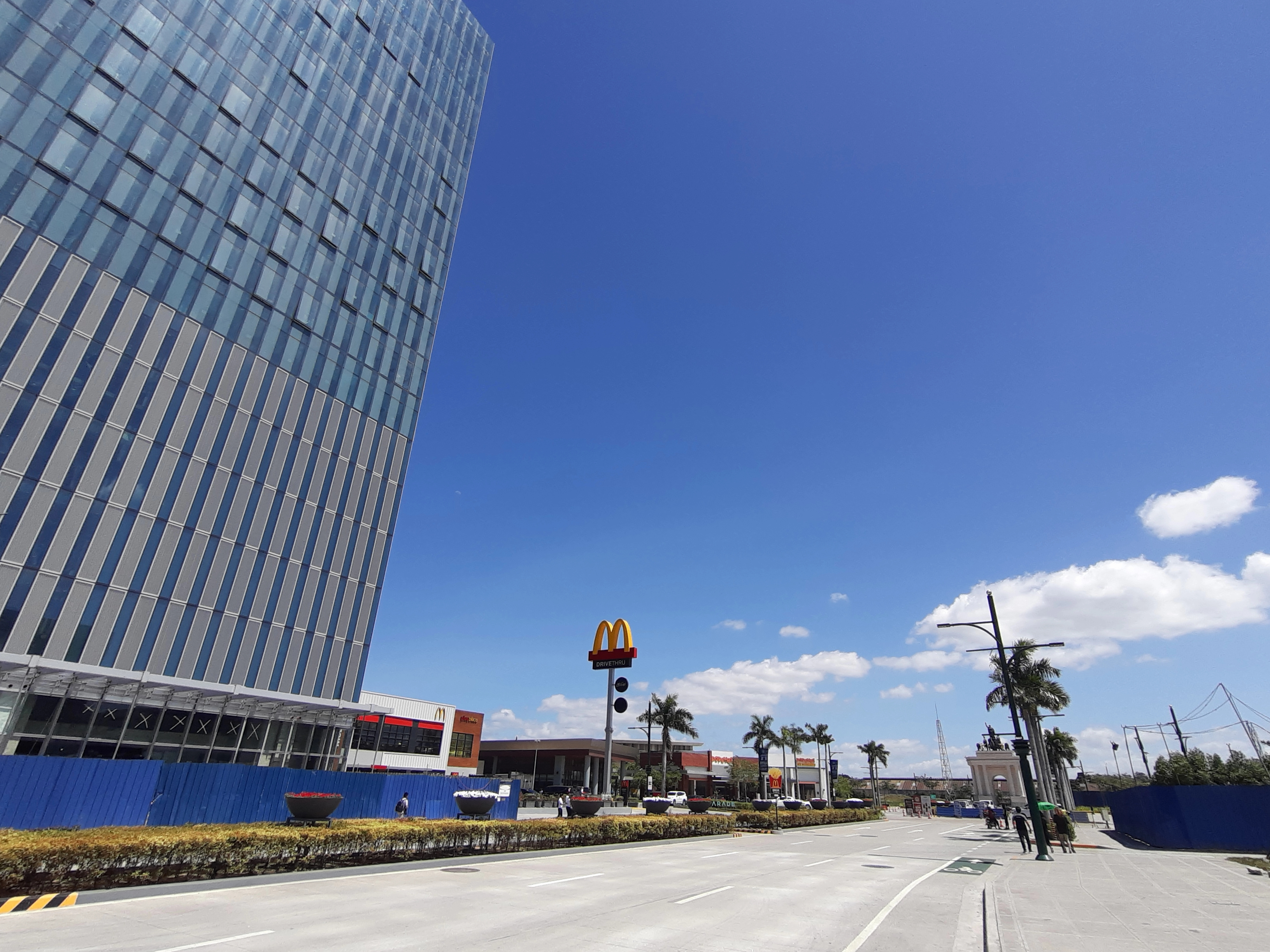 Arcovia City mixed-use development under construction. Eulogio Rodriguez Jr. Avenue (C-5 Road) Ugong, Pasig, Metro Manila